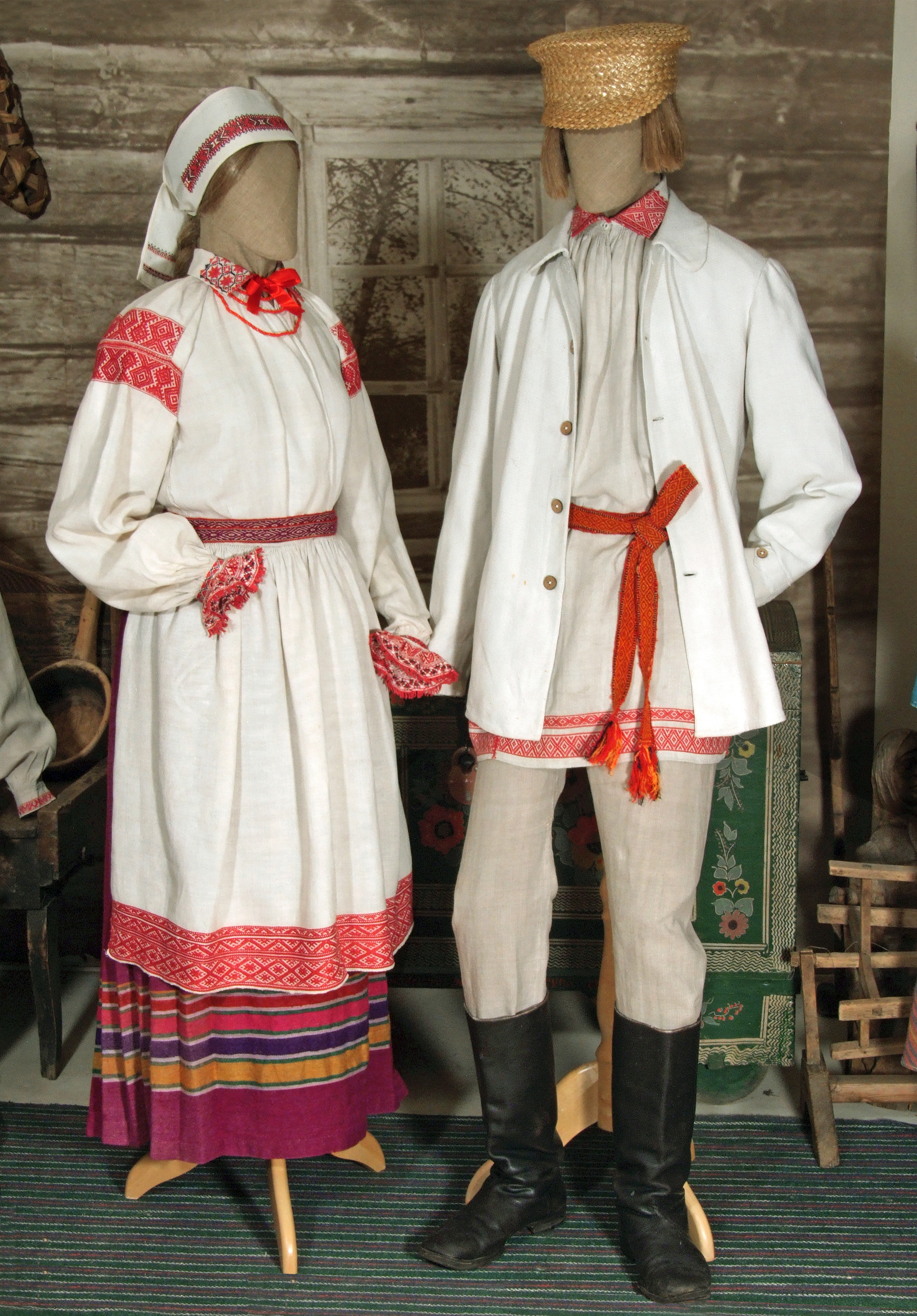 Traditional summer clothing of the Belarusian peasants, XIXth century. Location: Museum of Belarusian Folk Art (Minsk city, Belarus)